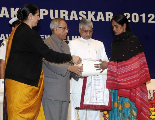 President of India Pranab Mukherjee posthumously bestowing the 2012 Stree Shakti Puraskar on Delhi gang rape victim 'Nirbhaya' on March 8, 2013, at Vigyan Bhawan, New Delhi.